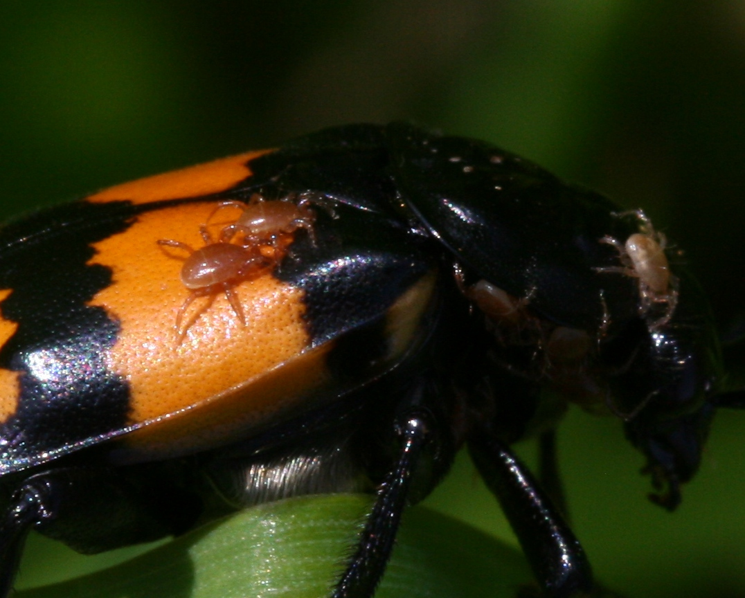 Pease Dean, Berwickshire, Scotland